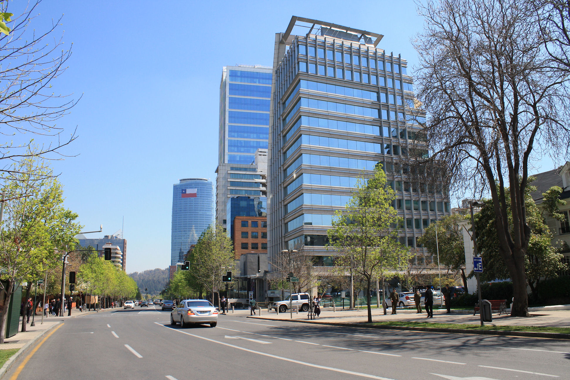 Looking west along Avenida Isidora Goyenechea from the junction with La Pastora.